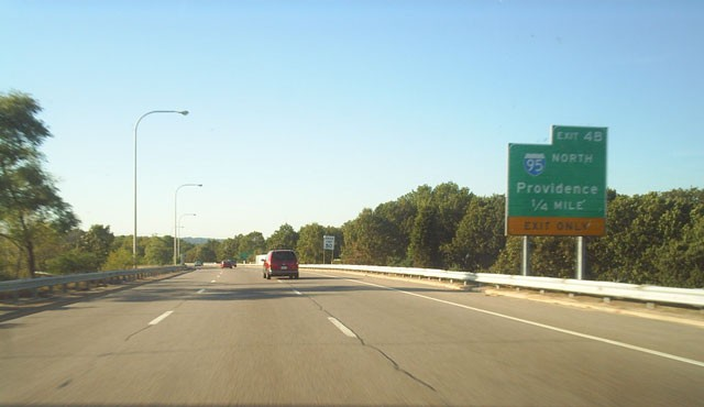 Westbound RI Route 37 in Warwick approaching Exit 4B and Interstate 95